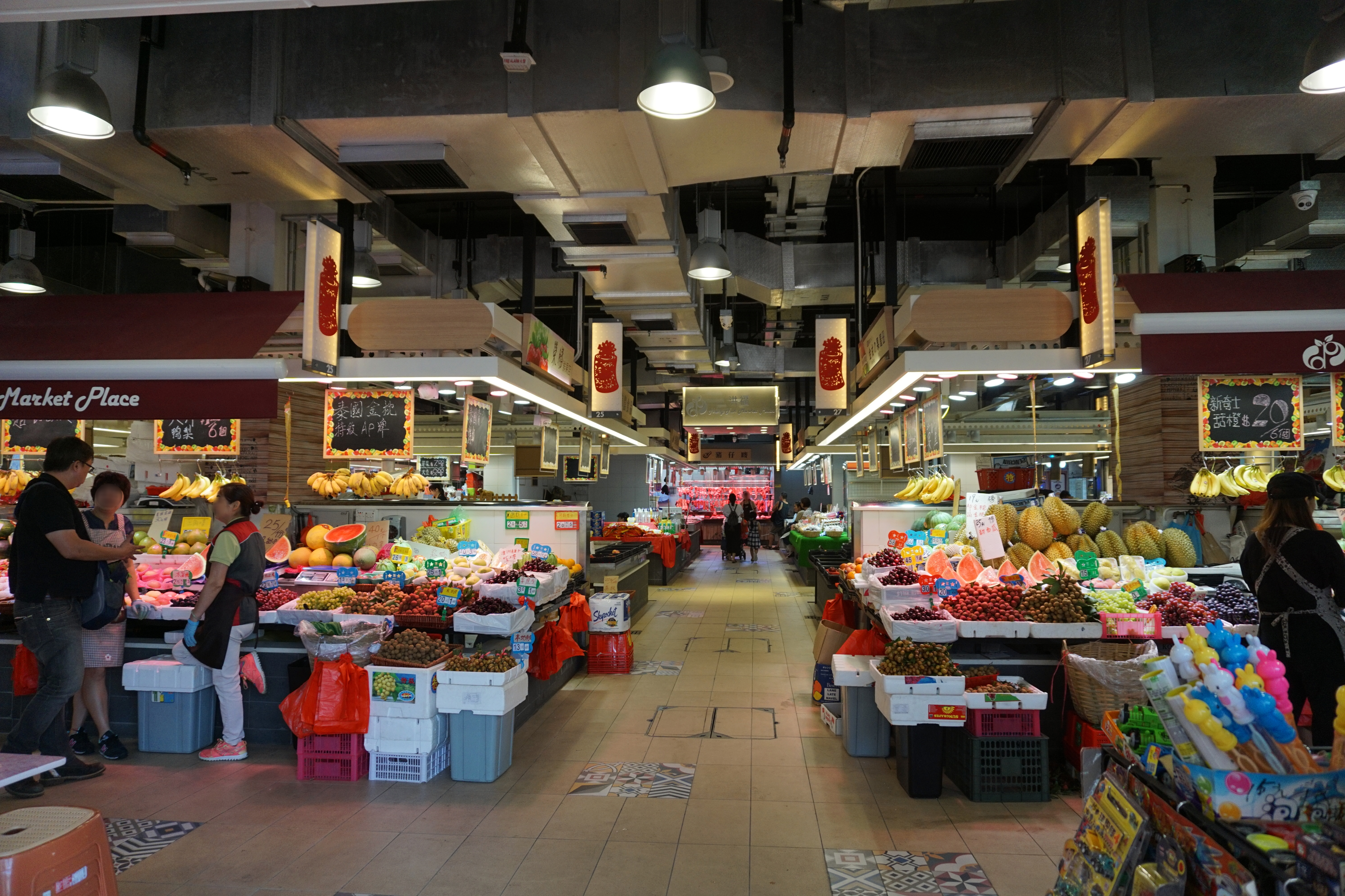 619 Hung Fuk Market Place in Hung Shui Kiu, Hong Kong.